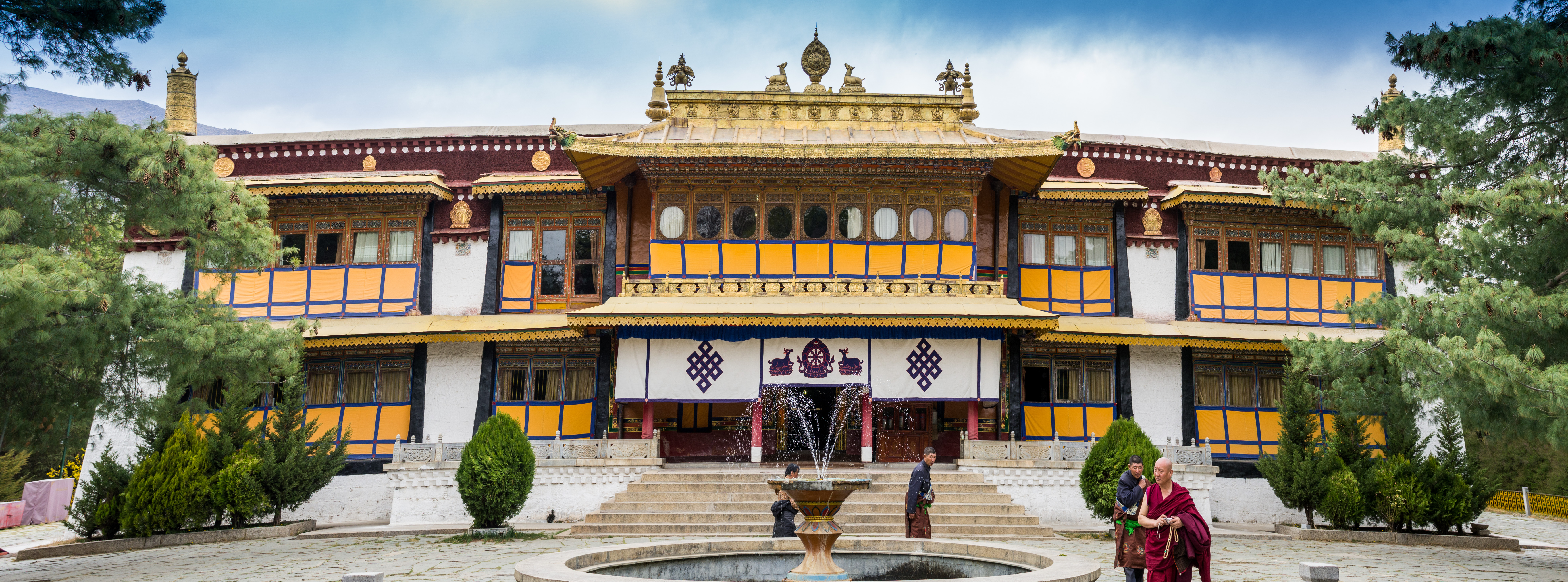 Norbulingka is a palace and surrounding park in Lhasa, Tibet, China, built from 1755. It served as the traditional summer residence of the successive Dalai Lamas from the 1780s up until the 14th Dalai Lama's exile in 1959. Panorama stiched from 3 shots with Lightroom. You see the person right from the fountain twice.